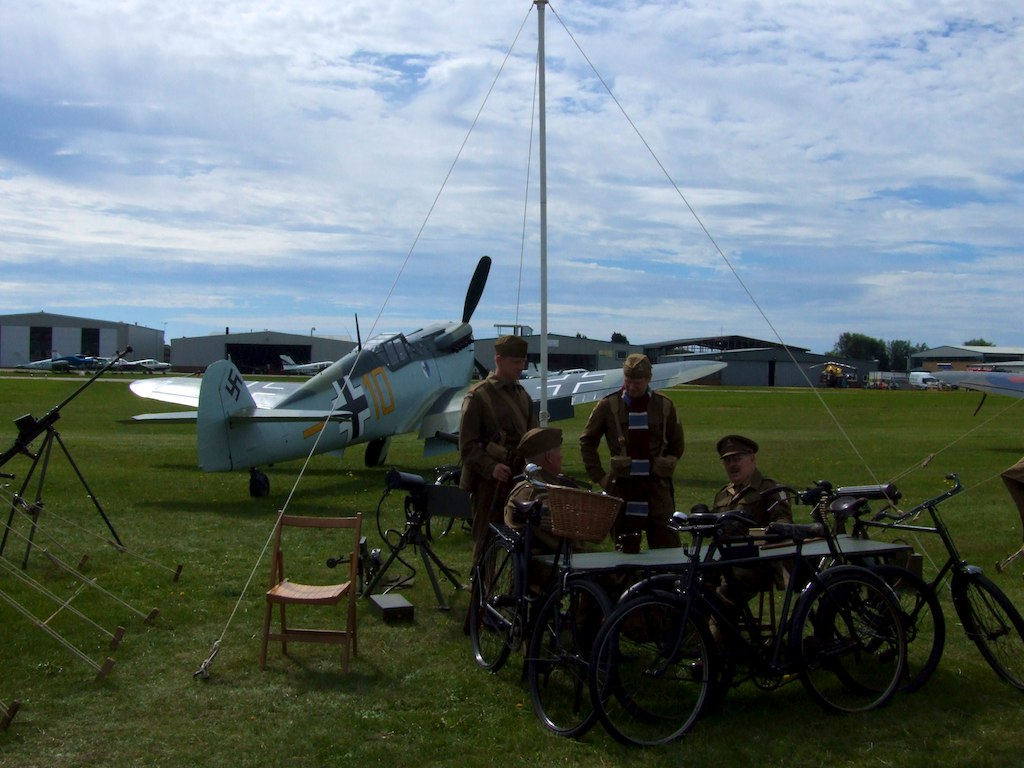 Sussex. . . With the Merlin engined Buchon 112 in the background this looks like a break in the filming of "Battle of Britain".